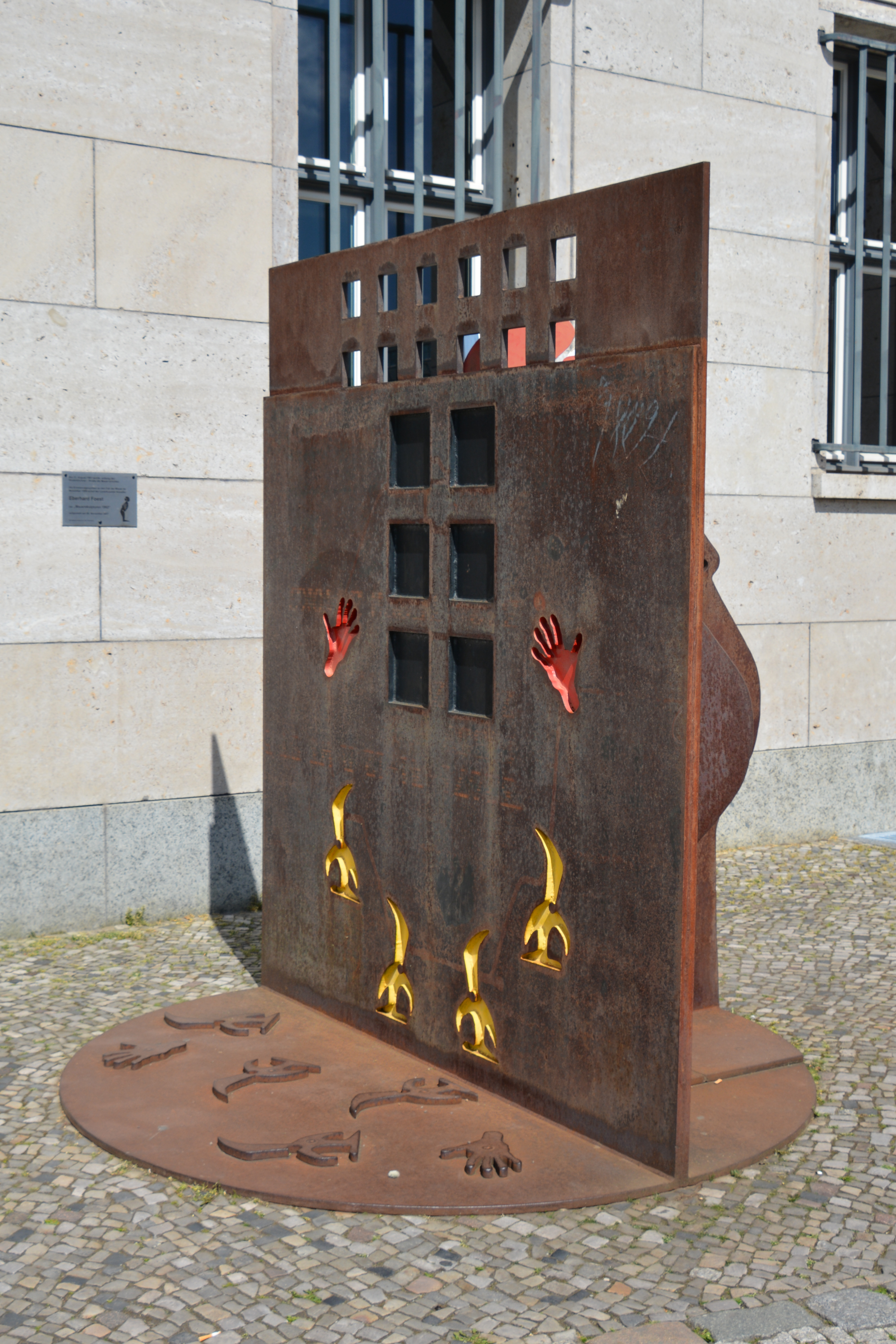 Mauerstuck 2, sculpture by Eberhard Foest, corten steel, outside Bundesfinzministerium, Niederkirchnerstrasse, Berlin